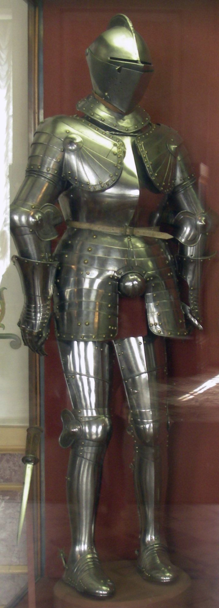 Personal Armour. Augsburg c. 1560. Hermitage Museum, knight hall, Saint Petersburg, Russia